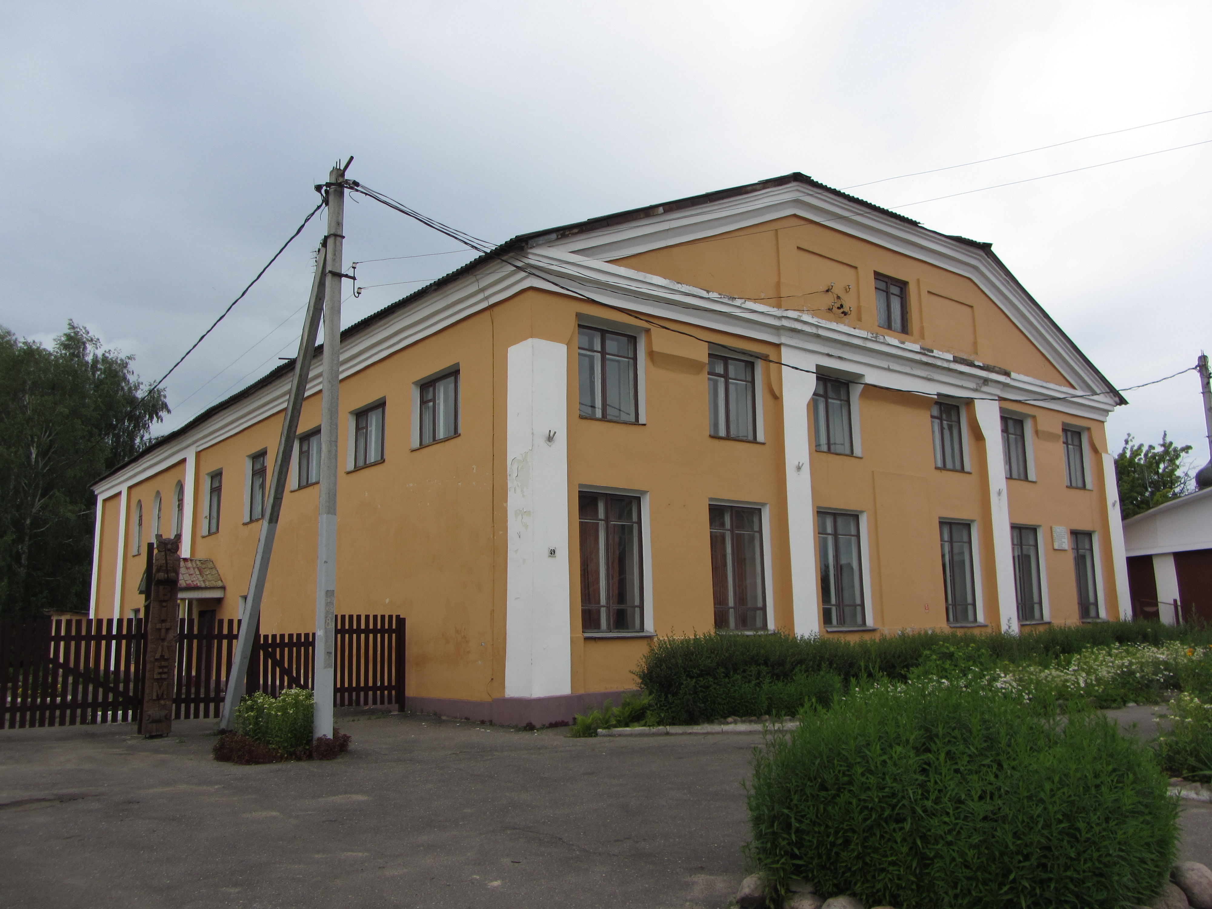 Big synagogue (built in 1912), Barysaŭ, Belarus